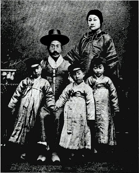 Yun Chi-ho's family, his wife and 2son and 1dougther's